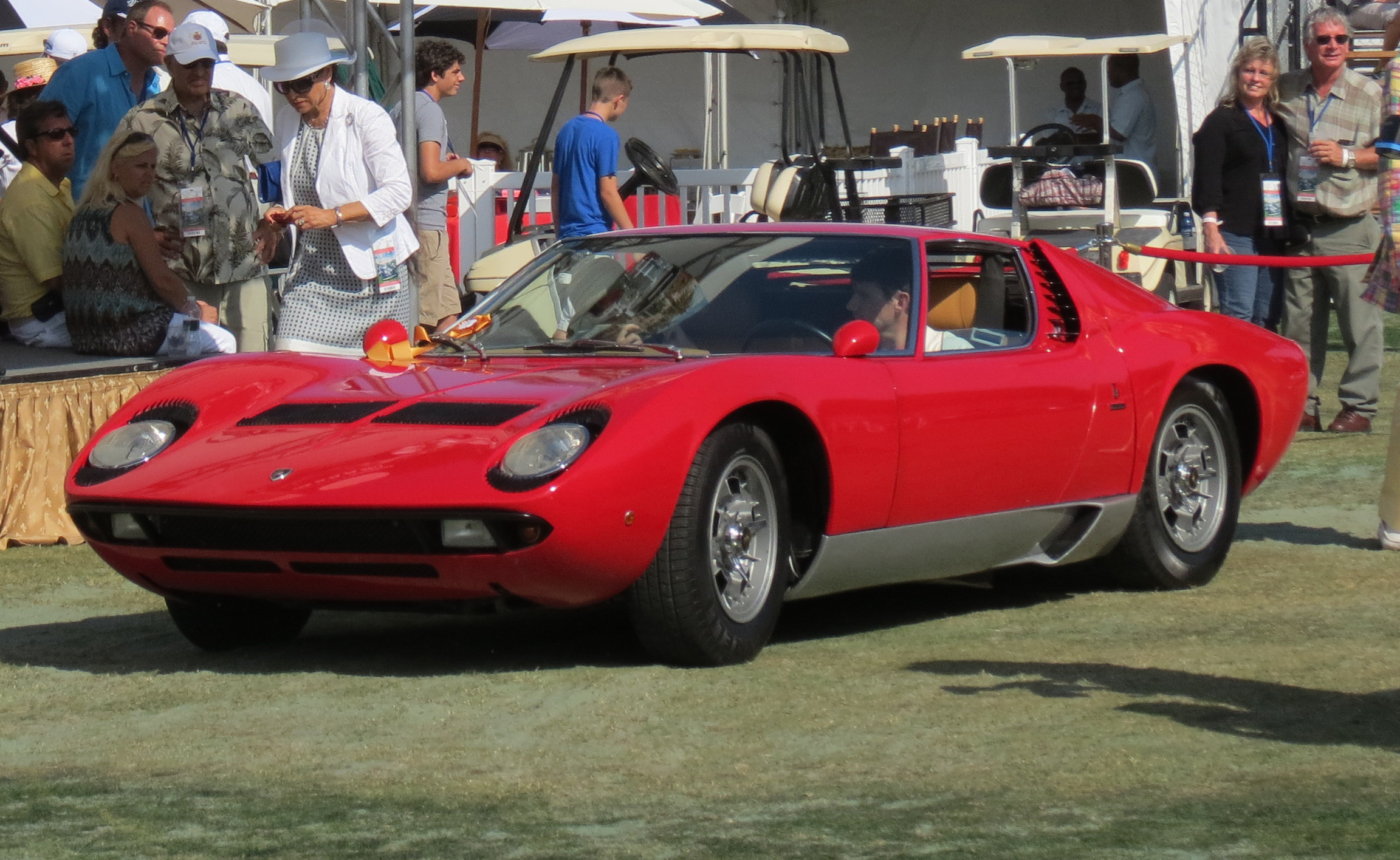 1970 Lamborghini Miura S. Restored by The Creative Workshop, Dania Beach, Florida 33004